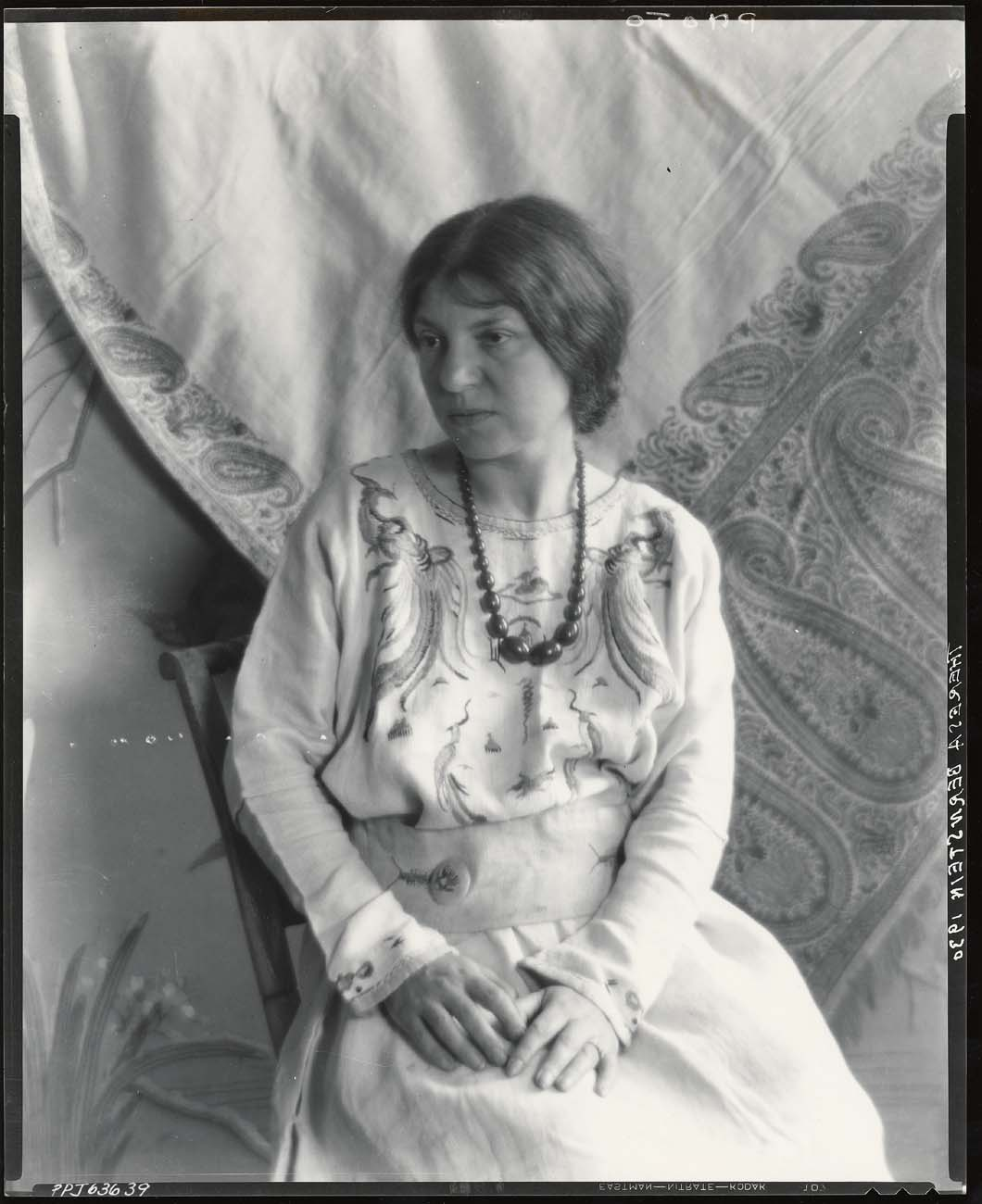 Description: Theresa Bernstein lived to be approximately 111 years old. During her long life, she gained recognition as one of the first women to paint in the Realist style. While she tried to veil her gender by signing her paintings 'T. Bernstein', she was both hailed and flailed for "painting like a man" in the 1910s. Her determination was legendary, when she broke her right hand, she painted with her left. When she could no longer hold a brush, she painted by squirting paint from tubes. Creator/Photographer: Peter A. Juley & Son Medium: Black and white photographic print Dimensions: 8 in x 10 in Culture: American Date: 1930 Persistent URL: [1] Repository: Archives of American Art Native nameArchives of American ArtParent institutionSmithsonian InstitutionLocationWashington, D.C.Coordinates38° 53′ 52.44″ N, 77° 01′ 21.72″ W Established1954Web page control : Q2860568 VIAF: 151134814 ISNI: 0000 0004 5897 2996 LCCN: n79065944 NLA: 35007823 GND: 1023549-8 WorldCat institution QS:P195,Q2860568 Collection: Peter A. Juley & Son Collection - The Peter A. Juley & Son Collection is comprised of 127,000 black-and-white photographic negatives documenting the works of more than 11,000 American artists. Throughout its long history, from 1896 to 1975, the Juley firm served as the largest and most respected fine arts photography firm in New York. The Juley Collection, acquired by the Smithsonian American Art Museum in 1975, constitutes a unique visual record of American art sometimes providing the only photographic documentation of altered, damaged, or lost works. Included in the collection are over 4,700 photographic portraits of artists. Accession number: J0063639